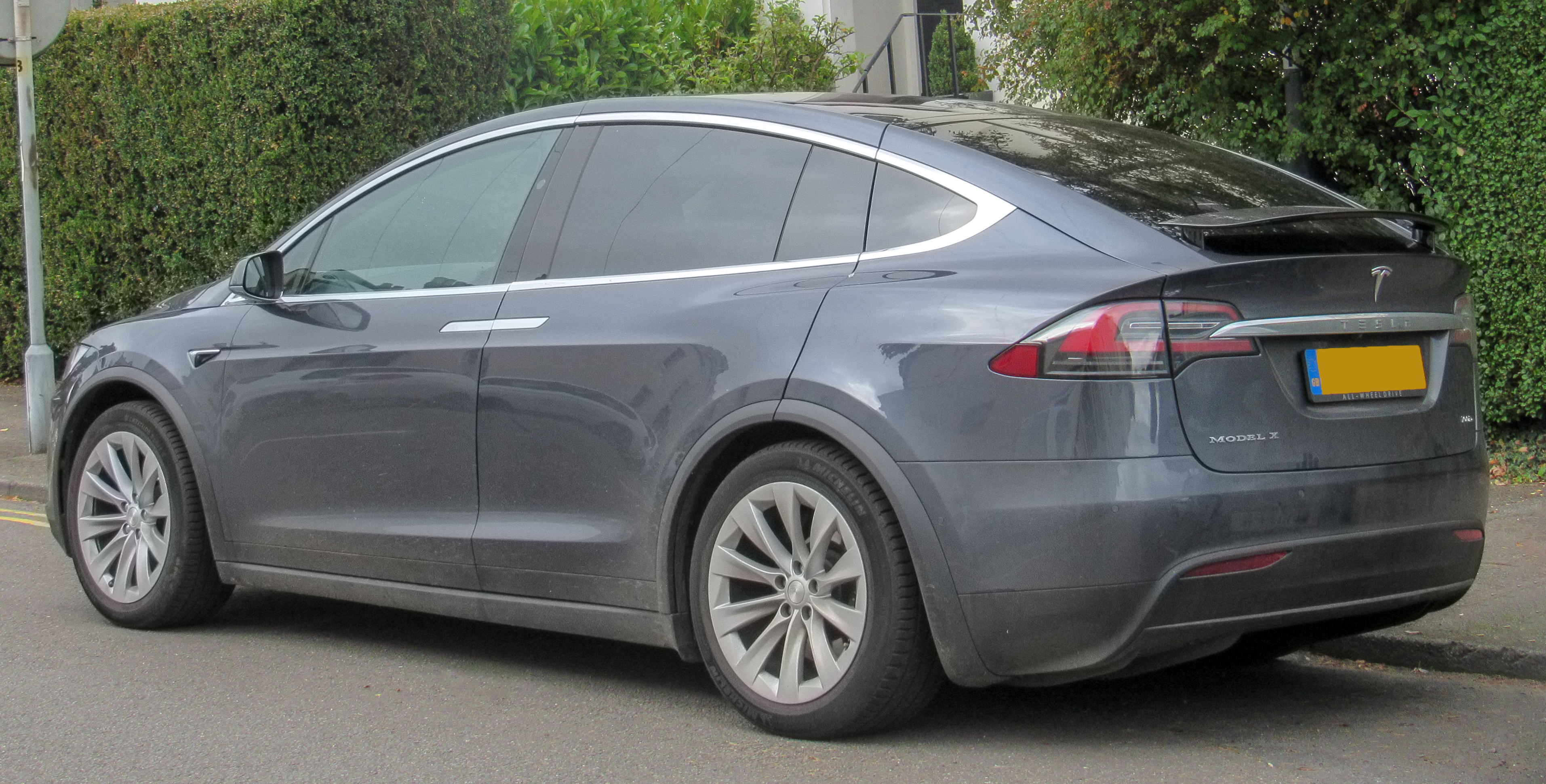 2017 Tesla Model X 100D Rear Taken in Leamington Spa